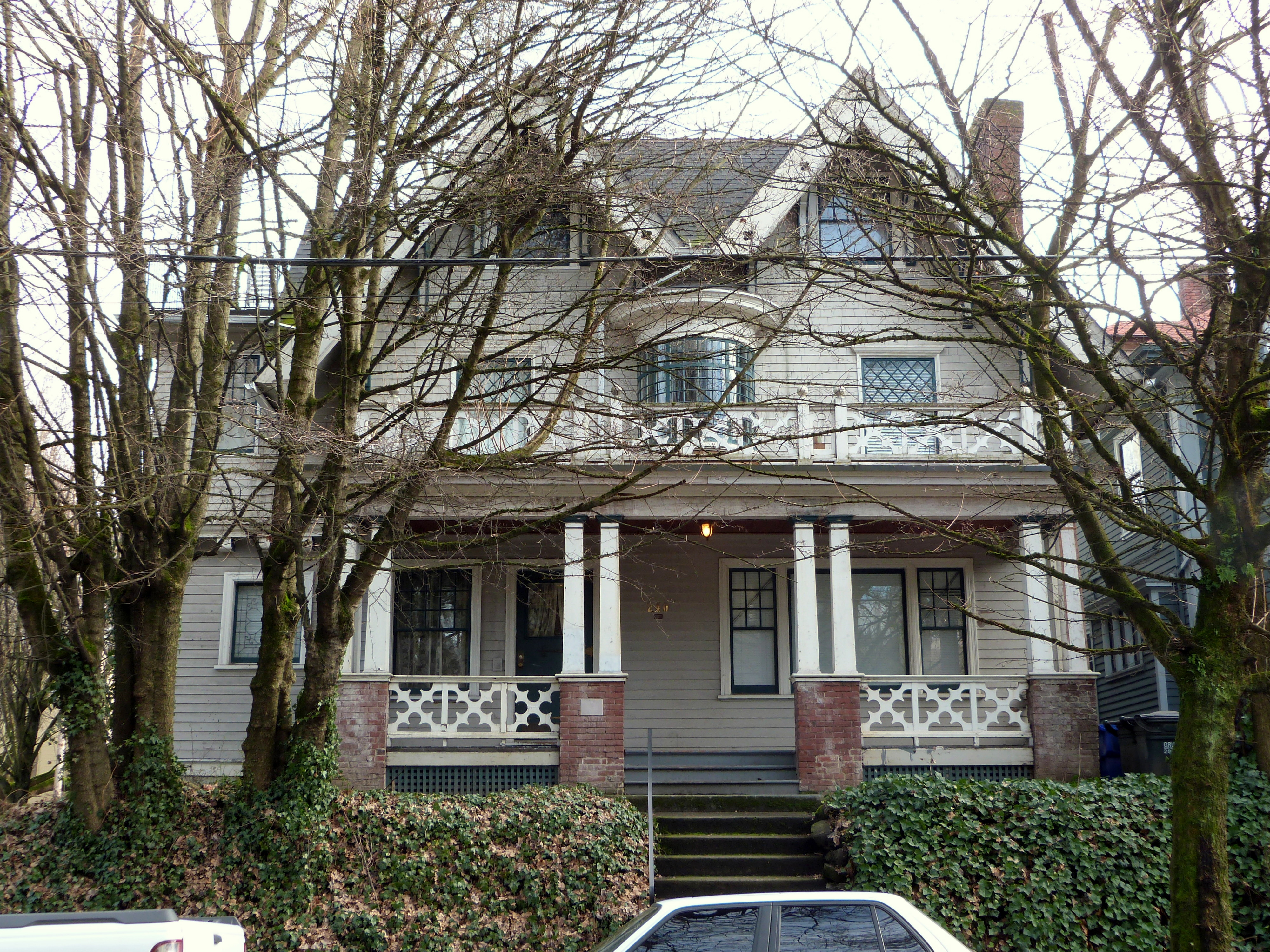 The historic Joseph Goodman House (built 1904), located at 240 Northwest 20th Avenue in Portland, Oregon, United States, is listed on the US National Register of Historic Places. Additionally, it is listed as a contributing resource in the National Register-listed Alphabet Historic District.